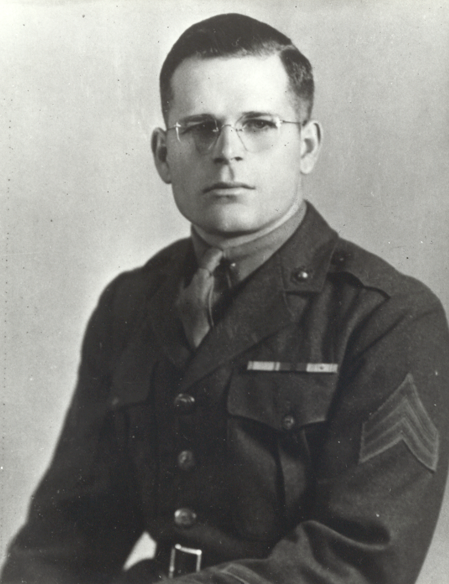 Sgt Grant F. Timmerman, USMC, Medal of Honor recipient; killed in action on Saipan during World War II